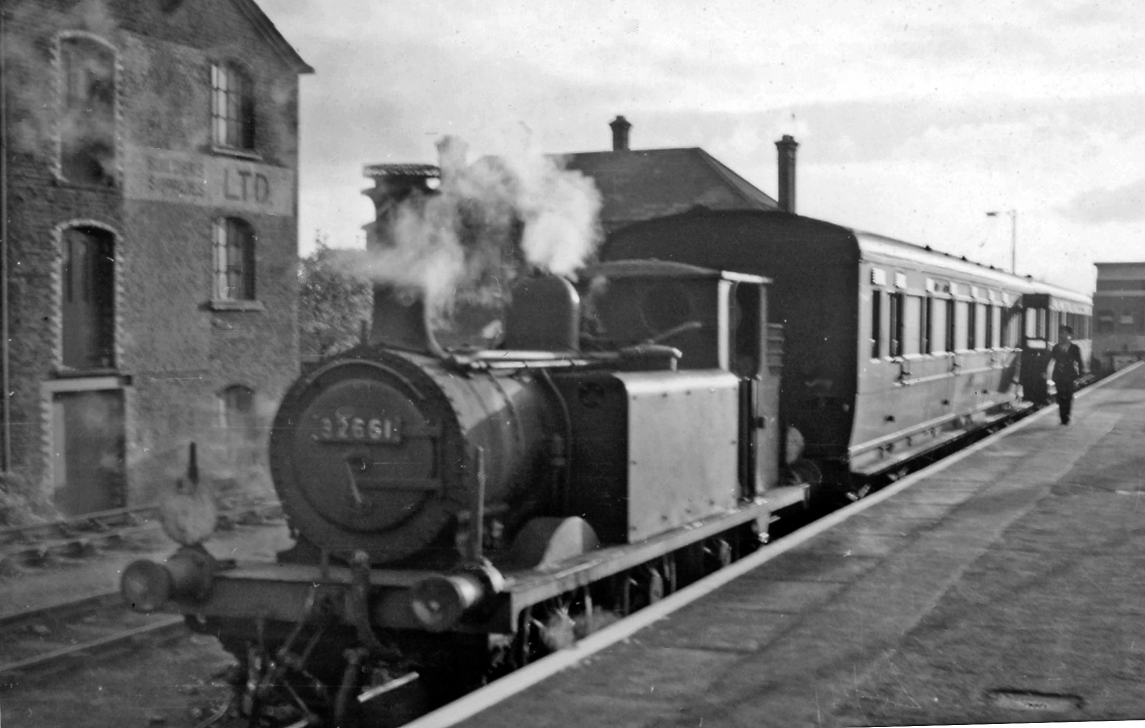 Hayling Island train at Havant. View eastward, towards Chichester and Brighton on the ex-LB%SCR Coast Line, the Hayling Island branch soon turning south. The locomotive is ex-LB&SC A1X class 0-6-0T No. 32661 (built 10/75 as class A1 No. 61 'Sutton', rebuilt 1/1912, withdrawn 4/63 (last of class)). It was necessary to retain these ancient little 0-6-0Ts as long as the Branch was retained owing to the weakness of Langston Bridge - until 11/63 when the line was closed.